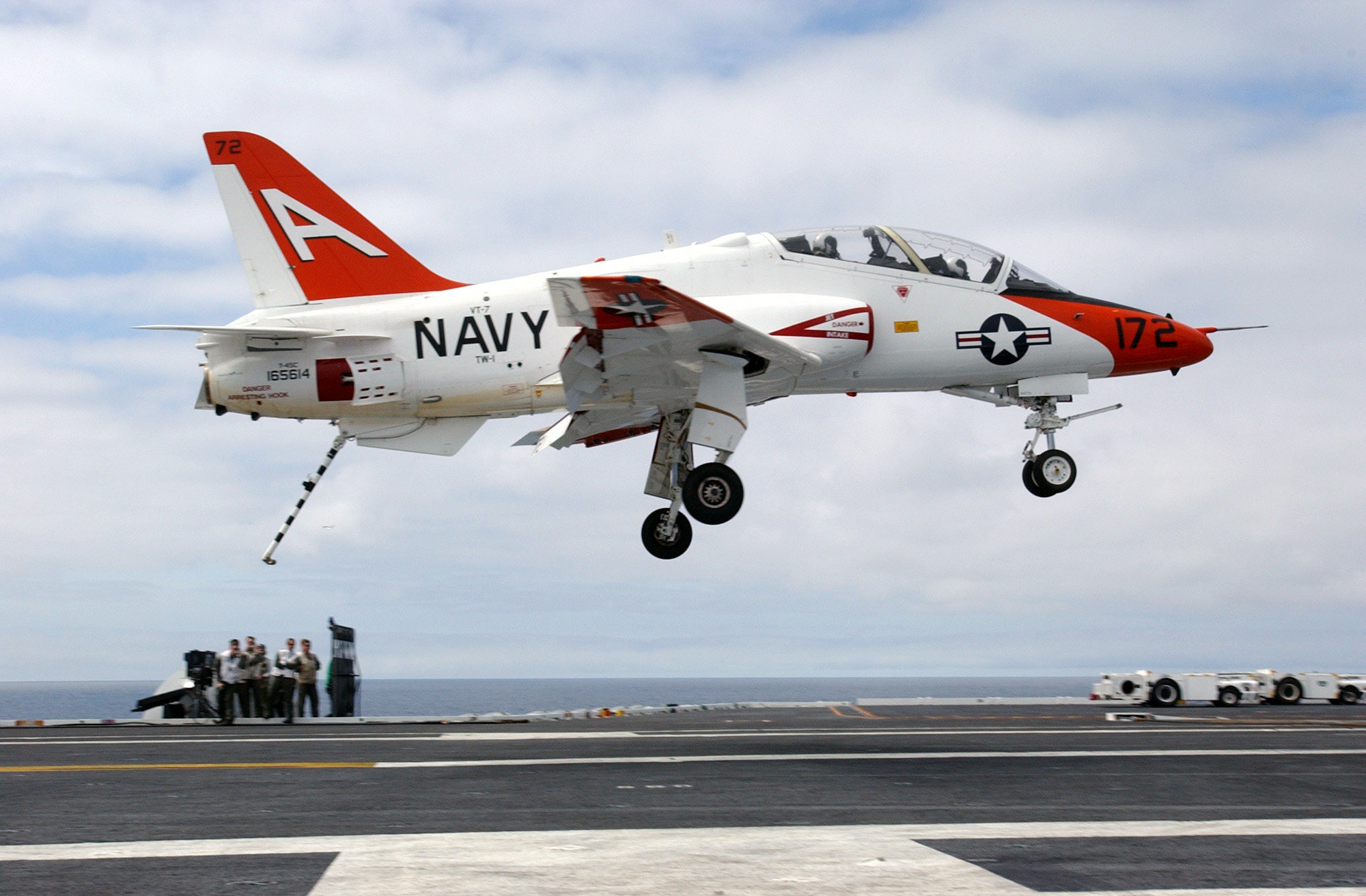 Pacific Ocean (March 14, 2003) -- A T-45C Goshawk comes in for a land on the flight deck aboard USS John C. Stennis (CVN 74). Goshawks are used for both intermediate and advanced portions of both the Navy and Marine Corps pilot training programs for carrier aviation and tactical strike-mission instruction. Carrier qualifications are normally conducted on Atlantic-based carriers within close range of the Meridian, Miss. training facility. However, the Navy was forced to move T-45 pilot qualifications to the Pacific due to the deployment of Atlantic fleet carriers to the Arabian Gulf. U.S. Navy photo by Photographer's Mate 3rd Class Joshua Word. (RELEASED)